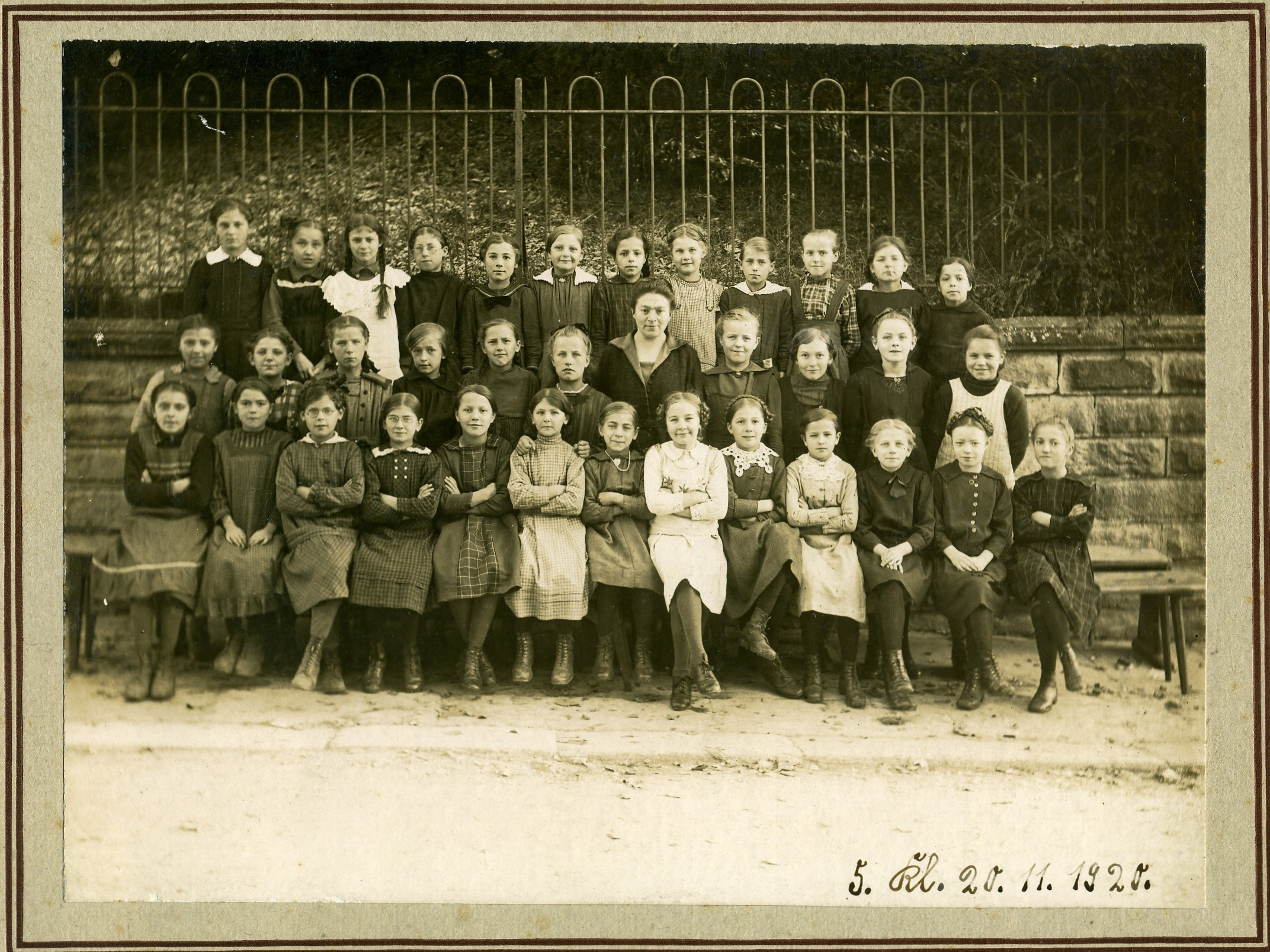 Schoolclass of Selma Rosenfeld 1920